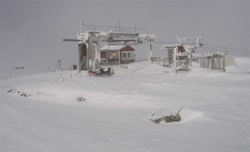 This is a picture from the skiresort Riksgränsen in Sweden.